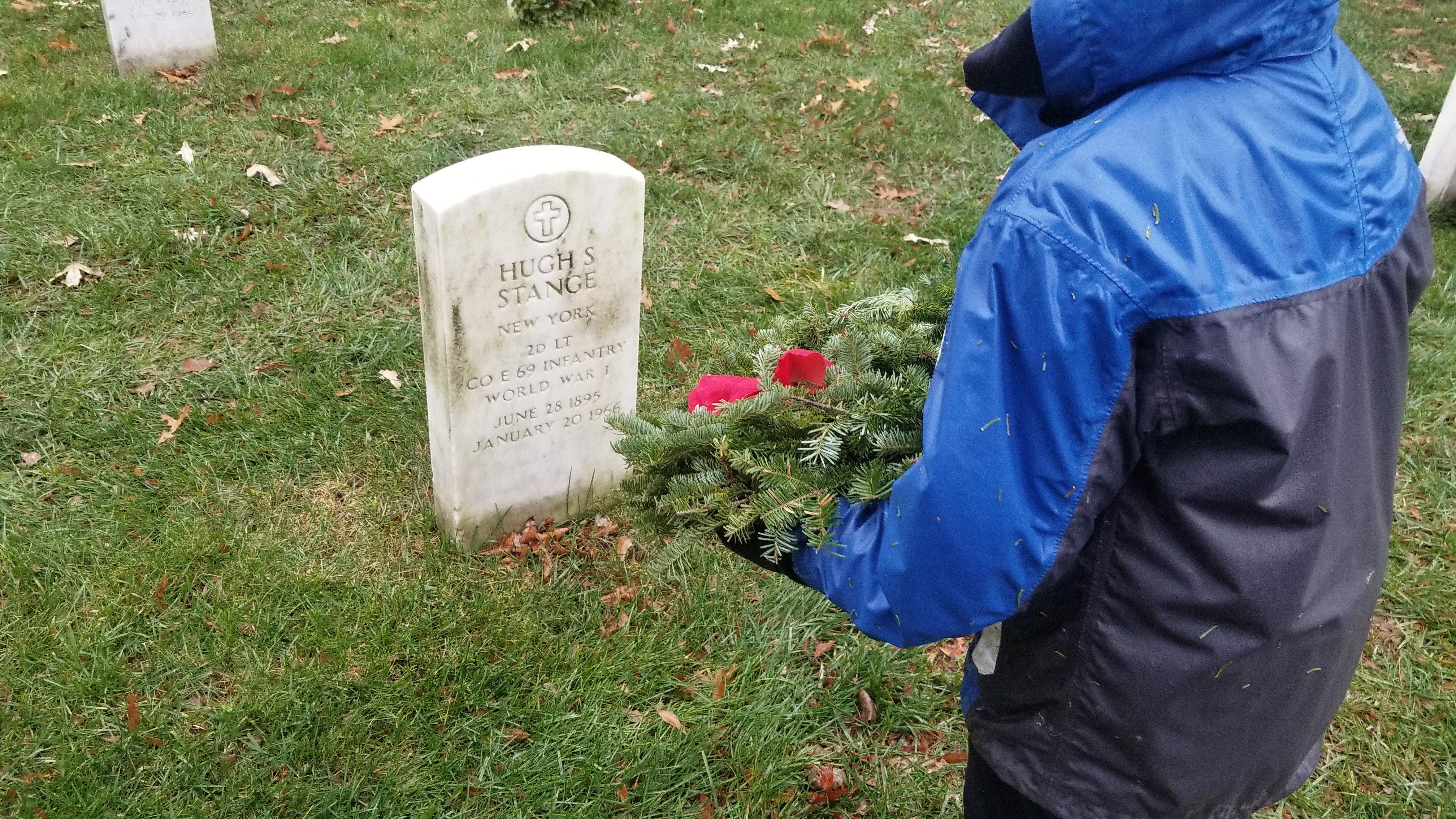 Hugh Stange grave site. Taken on December 15, 2018 during Wreaths Across America event. Wreath laid by Matthew, age 8